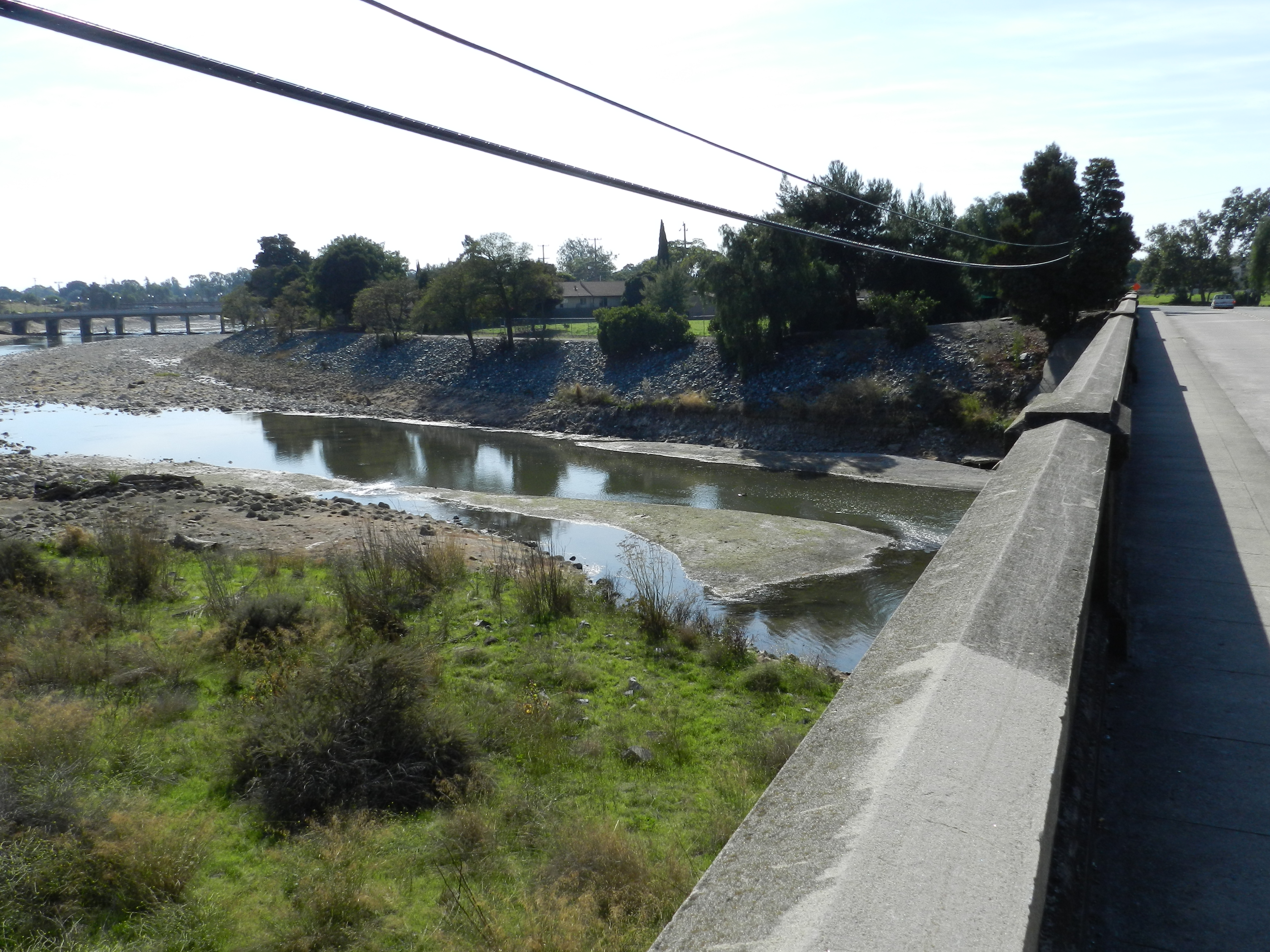 bridge over Alameda creek, near niles canyon, niles region, fremont california